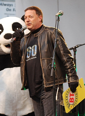 Kevin Frankish at Earth Hour Unplugged 2010